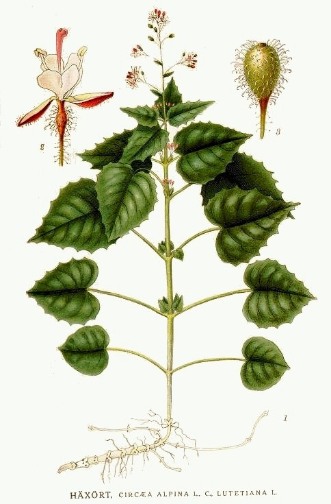 Original Description: Häxört, Circaea alpina L., C. lutetiana L.